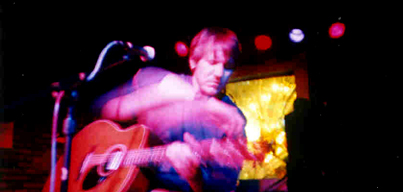 Elliott Smith on stage in Los Angeles in March 2000